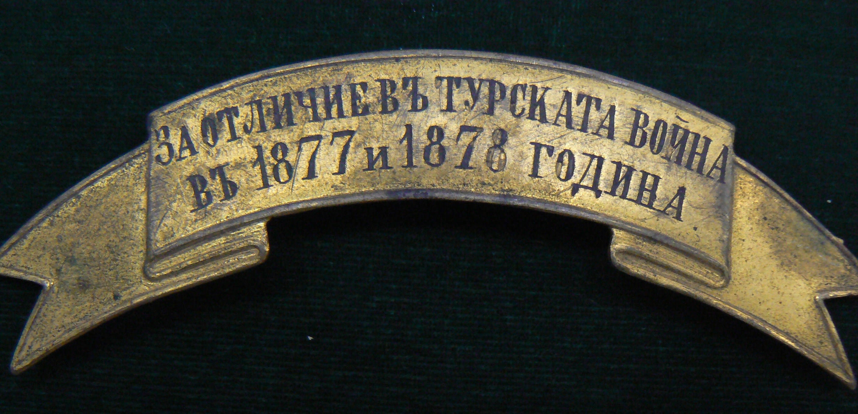 Ribbon for participation in Russo-Turkish War 1877-1878. Exhibit of the Regional History Museum - Vratsa